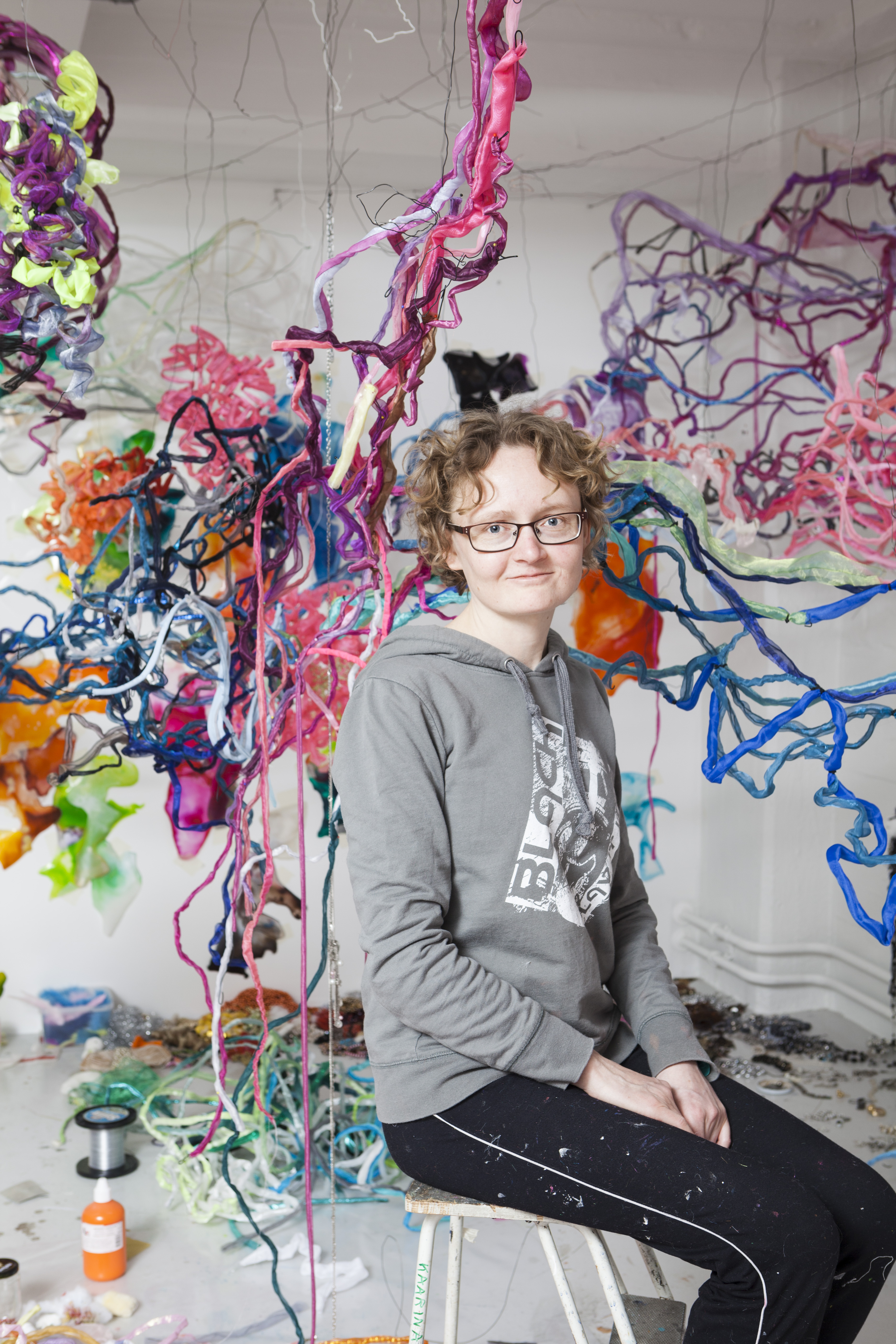 taiteilija / artist KAARINA HAKA s. 1974 Suomi in her studio, työhuoneellaankuva / Photo:Kansallisgalleria / Pirje MykkänenFinlands Nationalgalleri / Pirje MykkänenFinnish National Gallery / Pirje Mykkänen